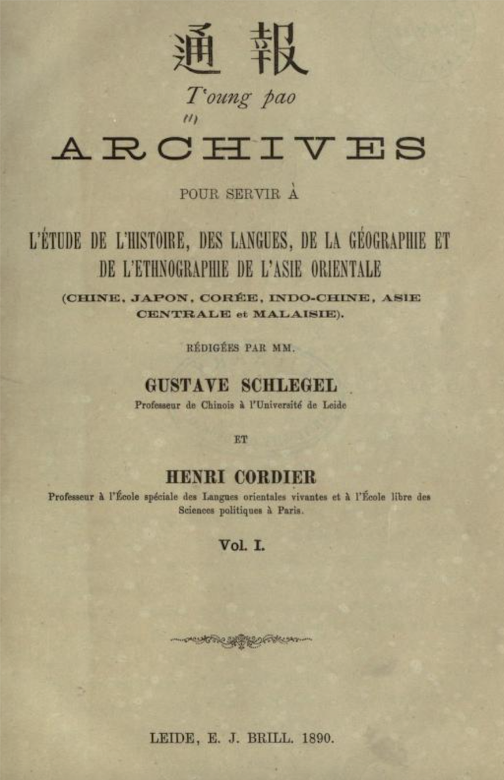 Title page of first volume of T'oung Pao, (1890)